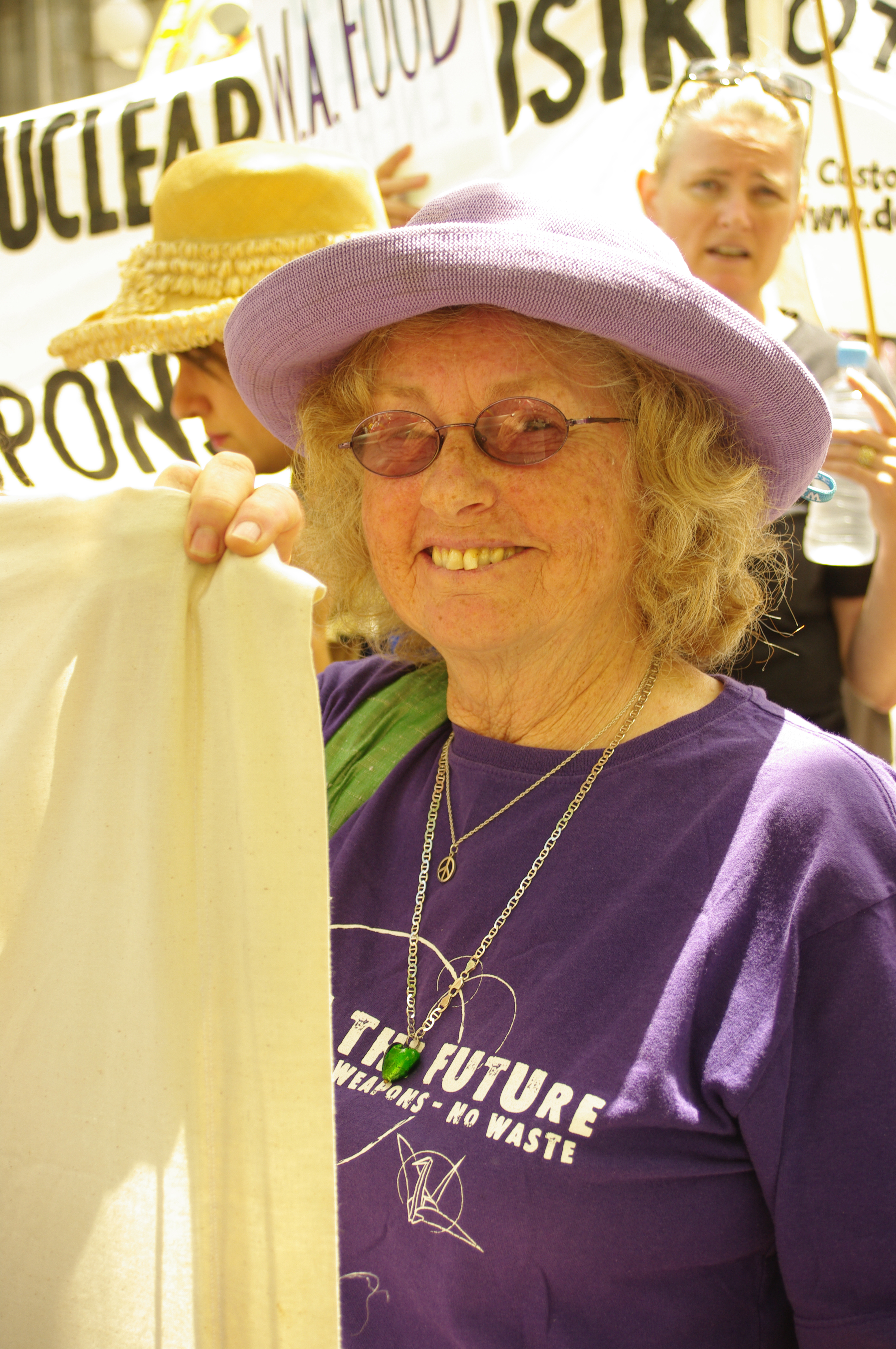 CHOGM 2011, protest that took place on the opening day, Jo Vallentine